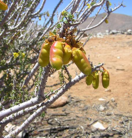 Balsamocarpon brevifolium. Chile. Favourite food of wild Chinchilla lanigera.